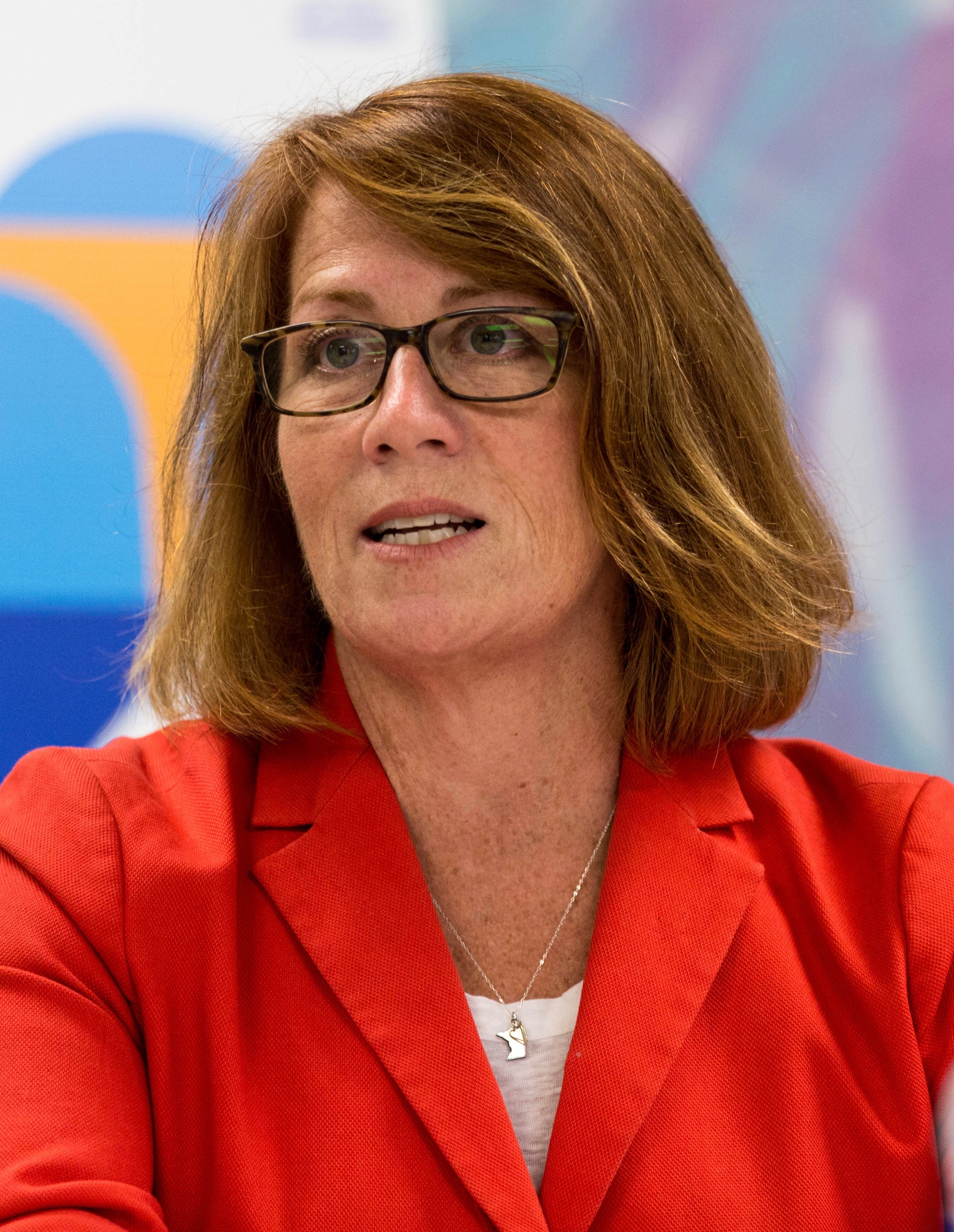 Erin Murphy, a member of the Minnesota Democratic–Farmer–Labor Party (DFL) & representing District 64A, at a women's roundtable at Hillary for Minnesota Headquarters in St Paul, MN